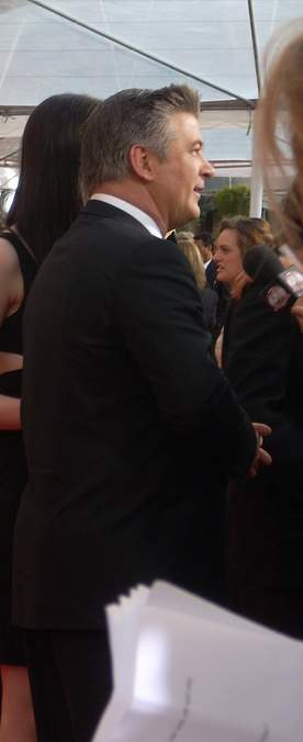 Actor Alec Baldwin, star "30 Rock", at the 15th Screen Actors Guild Awards